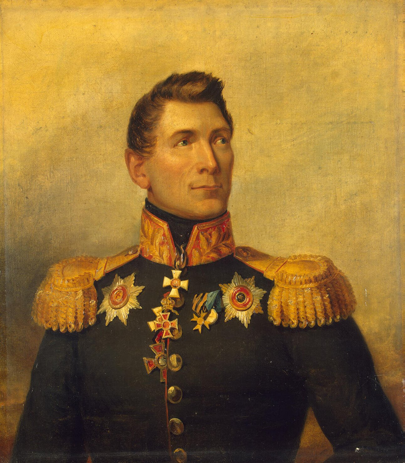 Gelfrykh, Bogdan Borisovich. Bogdan Borisovich Gelfrejh (27.01.1776 – 24.11.1843) russian general